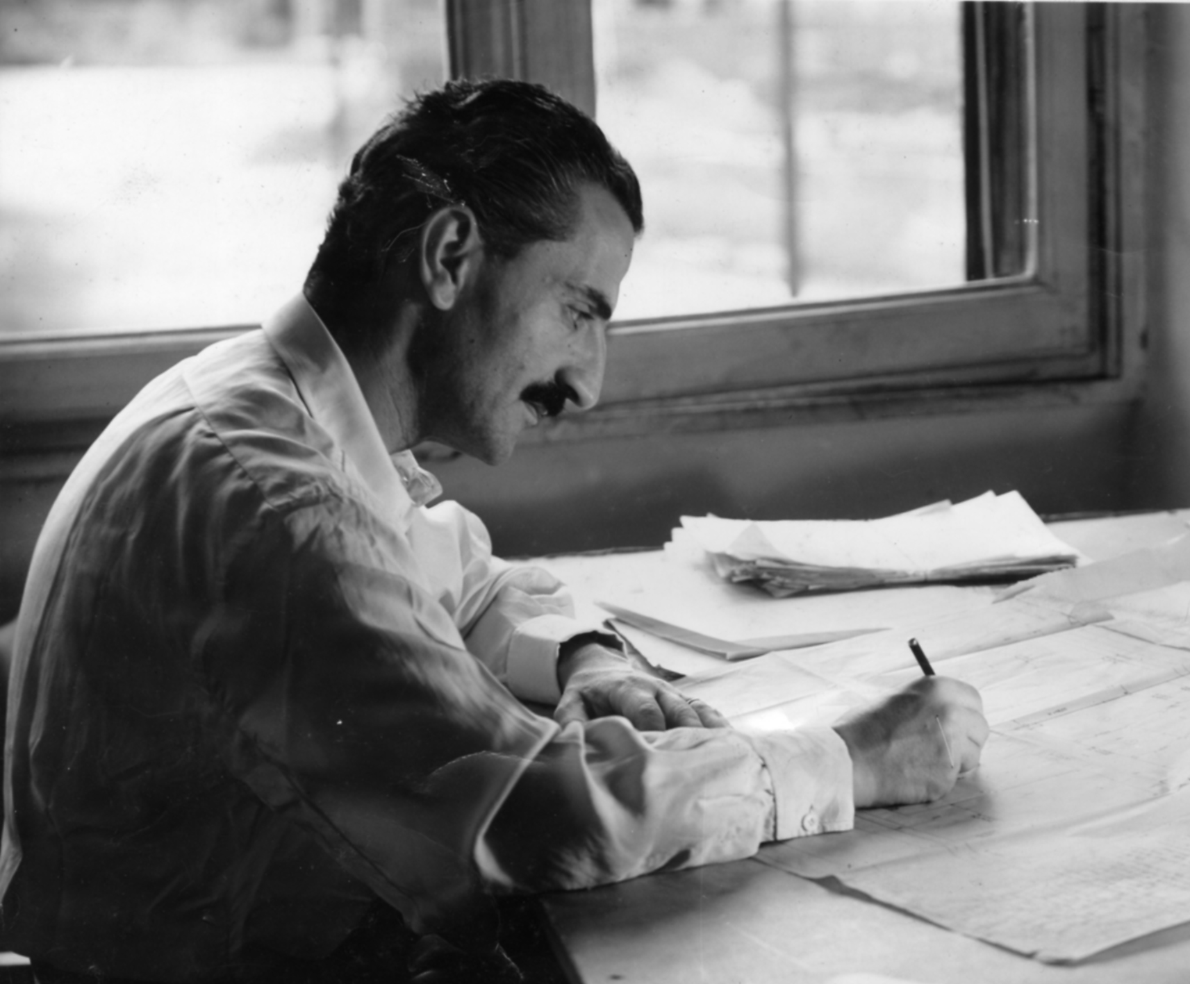 Carlo De Carli in his studio